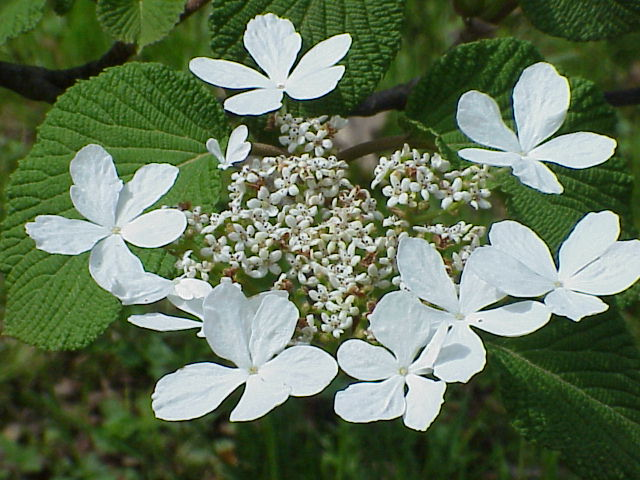 Species: Viburnum furcatum Family: Adoxaceae (formerly in Caprifoliaceae) Image No. 1